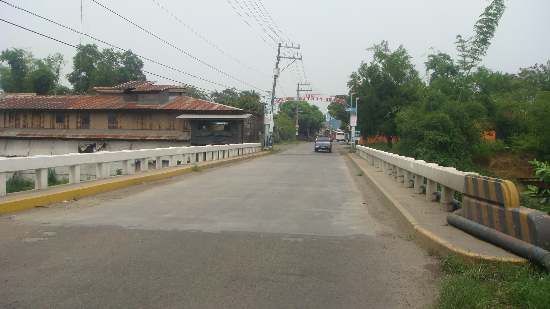 Brgy. Catmon bridge and marker